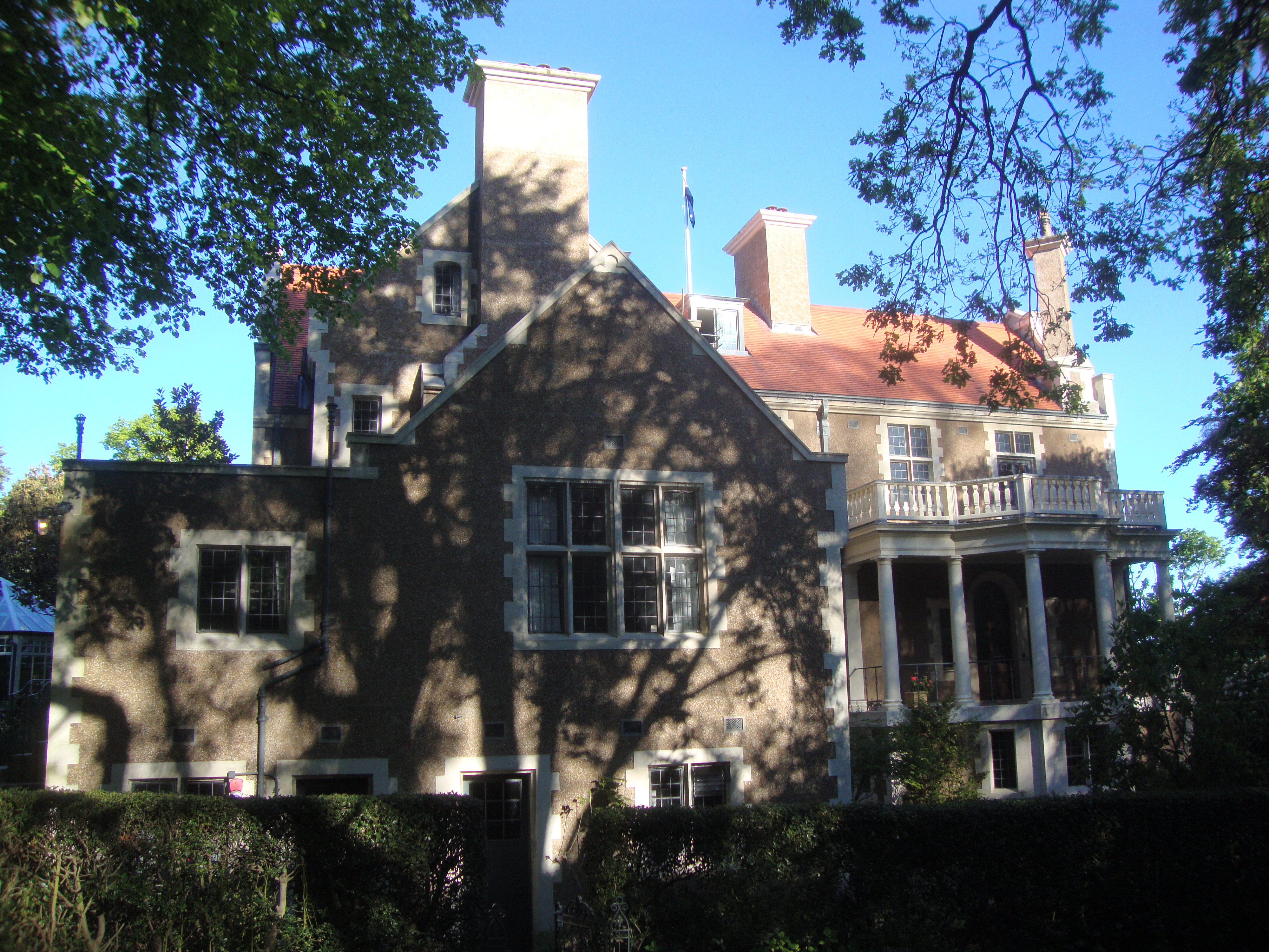 Olveston in November 2011.